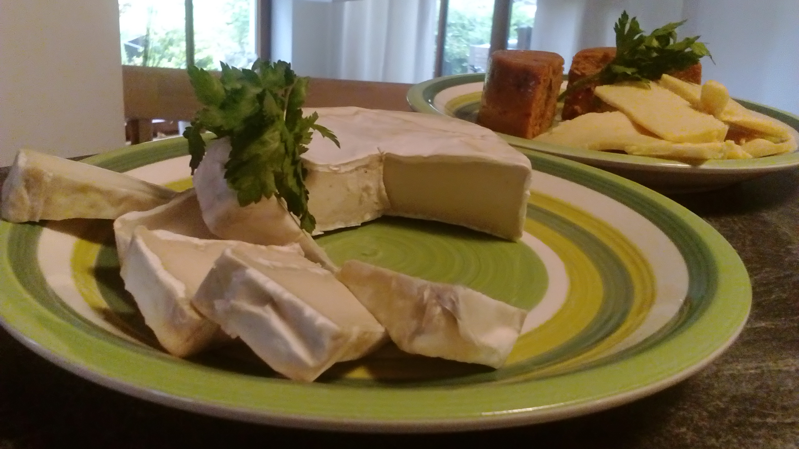 Vegan Cheese based on cashew seeds. Left: "Happy White, Camembert-Alternative, 150g" by German producer "Happy Cheeze" Ingredients: Cashew kernels (76%), filtered water, Himalayan stone salt, vegan fermentation and mold cultures Right (reddish color): "Happy Cheeze, Ripened Cheese Alternative, Chorizo, 100g" by German producer "Happy Cheeze" Ingredients: Cashew kernels (98g per 100g final product), filtered water, pepper (1.2%), Himalayan salt, smoked paprika, onions, garlic, spices, vegan fermentation cultures. Right (yellow color): "No-Moo, Mild-Aromatic" from Swiss producer "Vegusto" Ingredients: water, vegetable oils and fats non-hydr. (coconut, sunflower oil), potato starch, fruit juice, rice flour, yeast, nut butter (100% almonds), rock salt, flavouring (vegetable), binder (carrageen), spices, antioxidant (ascorbic acid), colourants (turmeric, beta-carotene)